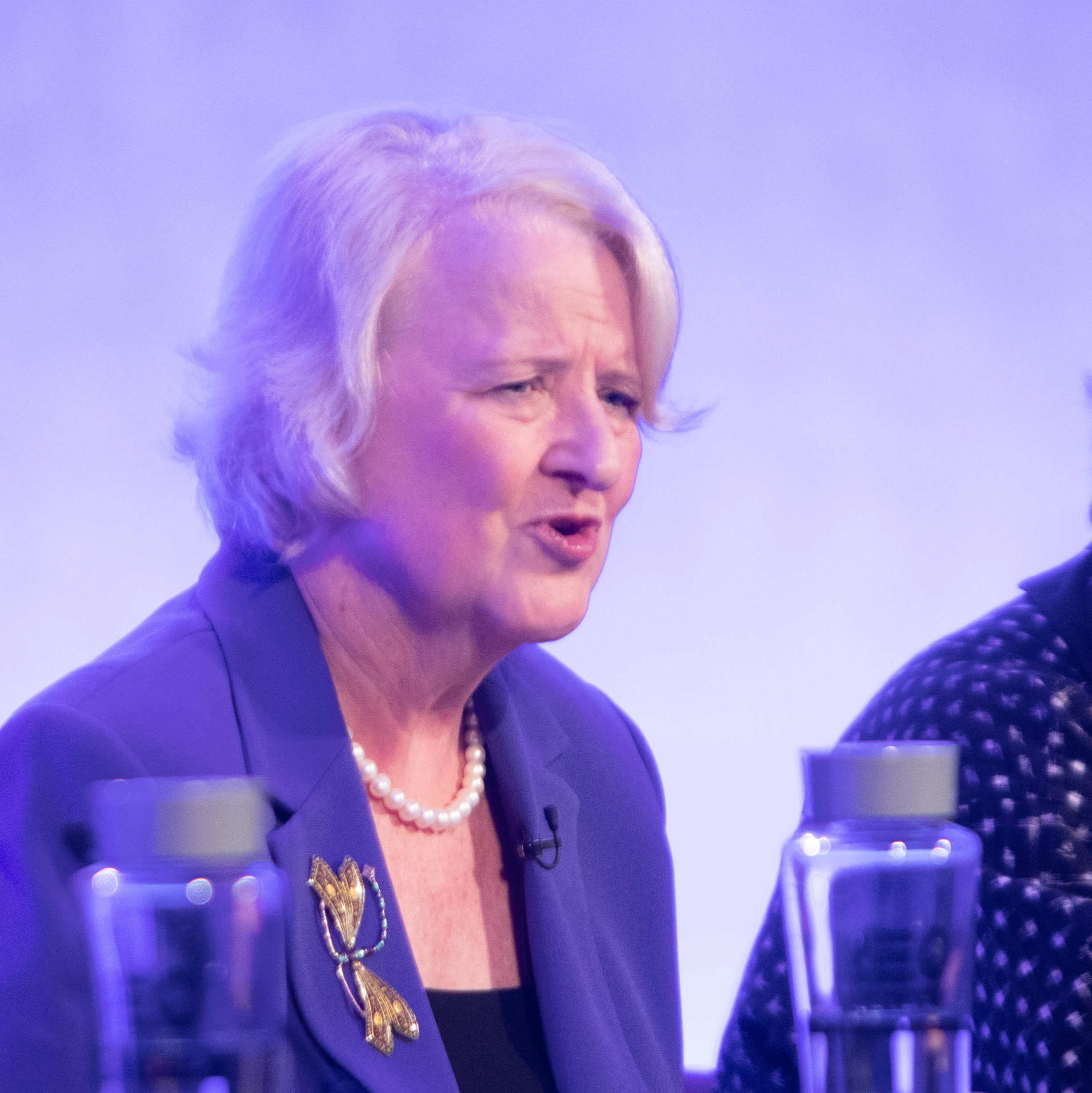 Jan Margaret Beagle Safeguarding 2018 Conference Jan Beagle, United Nations Under-Secretary-General for management speaks at the Safeguarding Conference in London. 18/10/2018 ©DFID/MichaelHughes